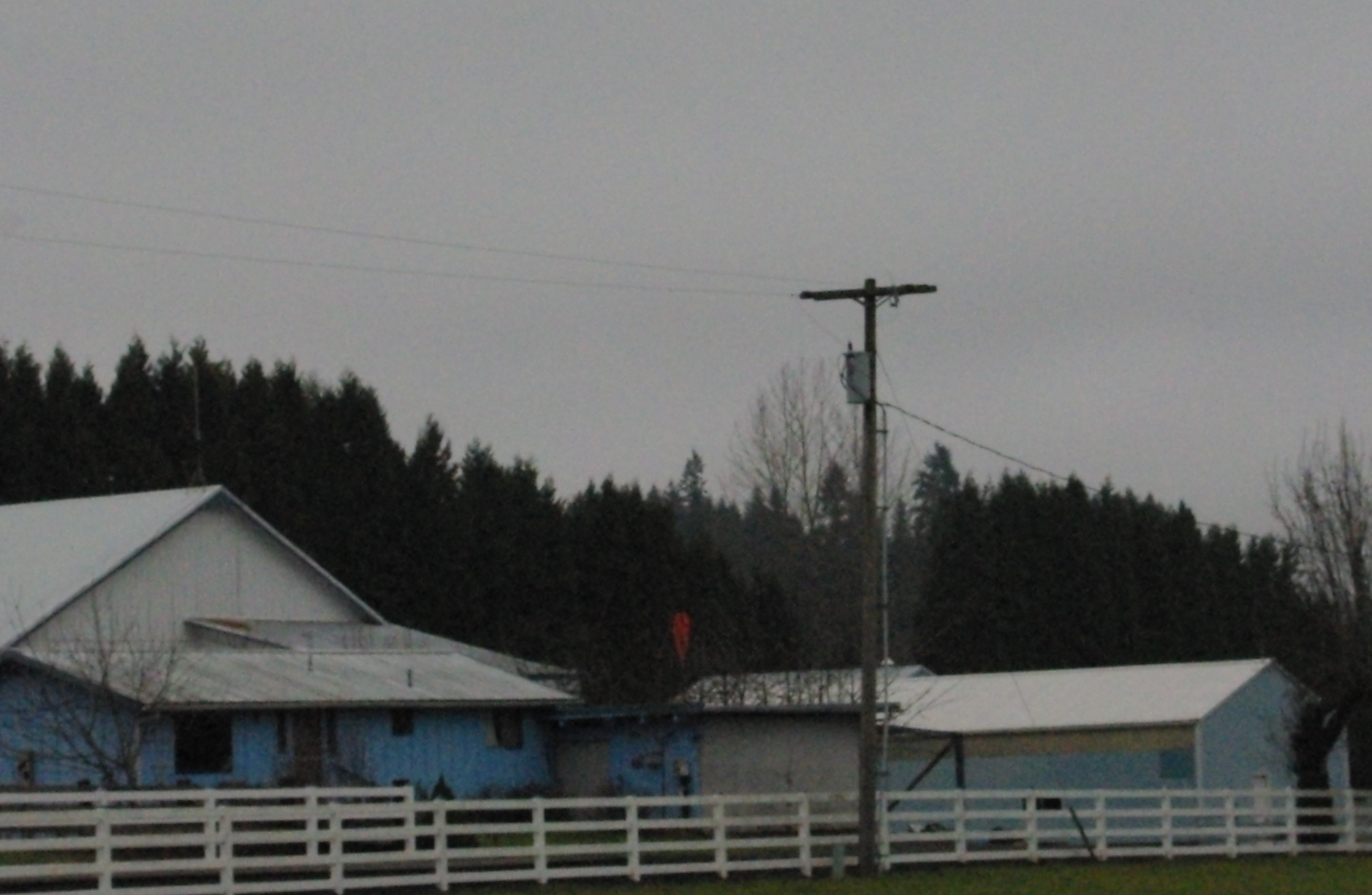 Windsock at the airport.